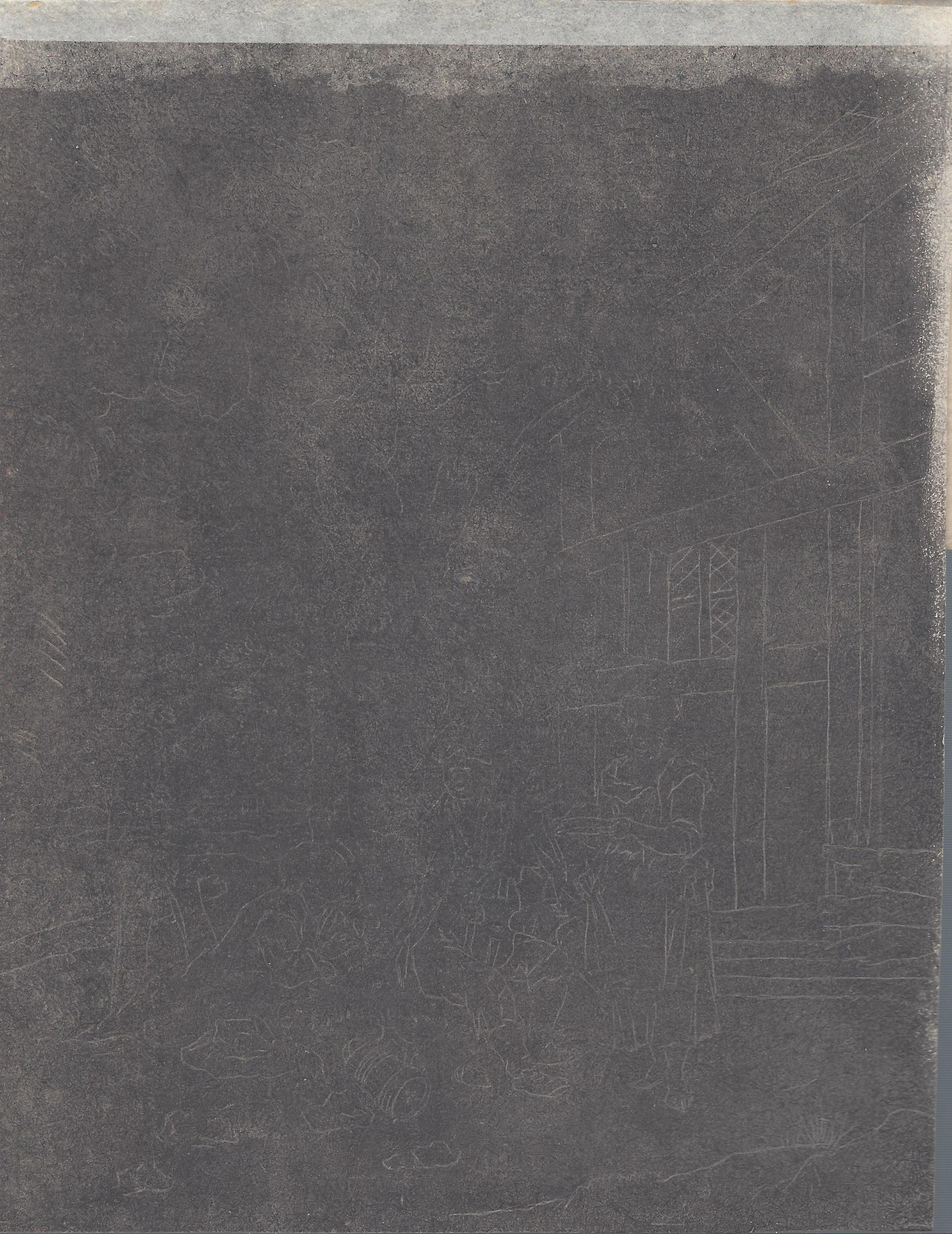 Mit Kohle geschwärzte und stumpf durchgepauste Rückseite einer Zeichnung von Johann Michael Frey (1750-1818).